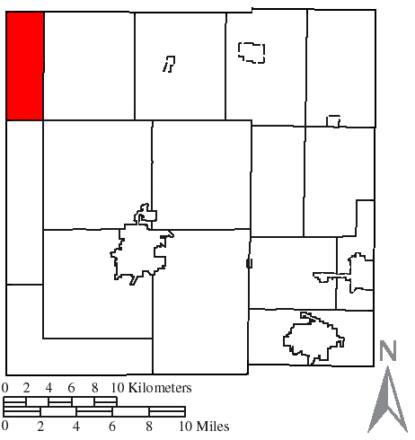 Made by the US Census and modified by myself